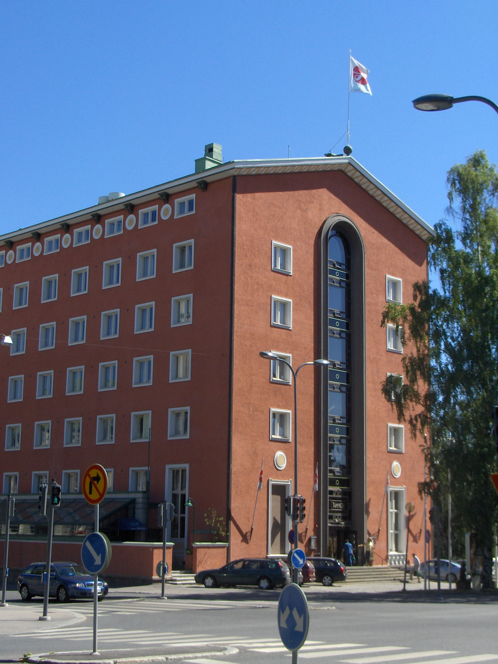 Radisson Blu Grand Hotel Tammer in Kyttälä, Tampere, Finland.